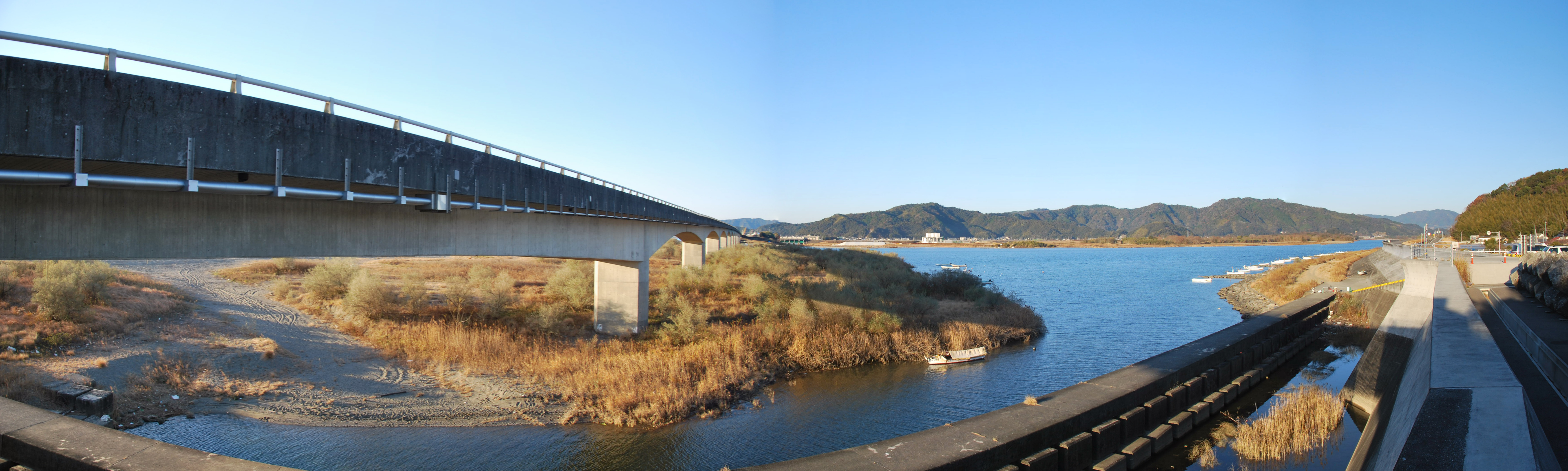 Panorama view of Niyodo estuary